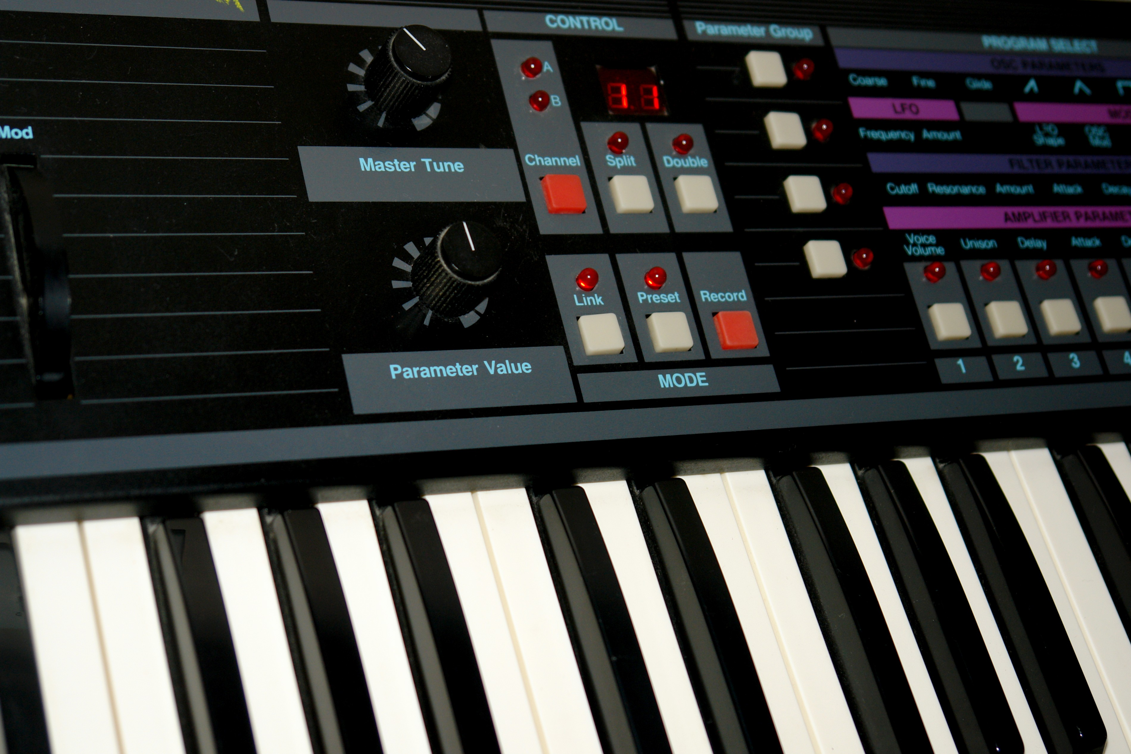 Photo of front panel of Sequential Circuits Split-8 synthesizer by User:Rwintle.